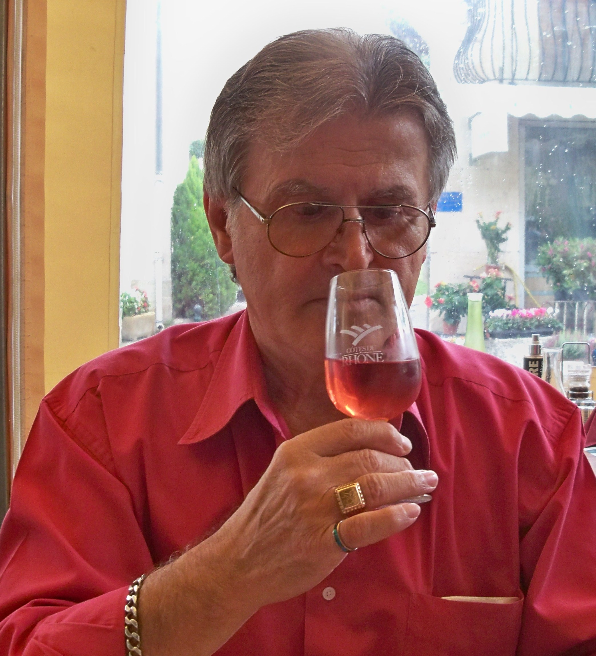 wine tasting